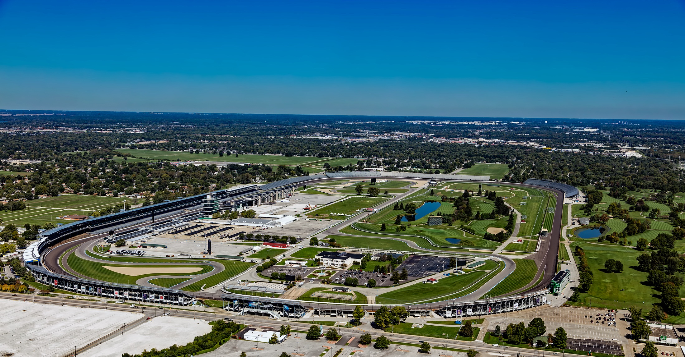 Aerial of Indianapolis Motor Speedway complex looking north. West 16th Street is in the foreground.